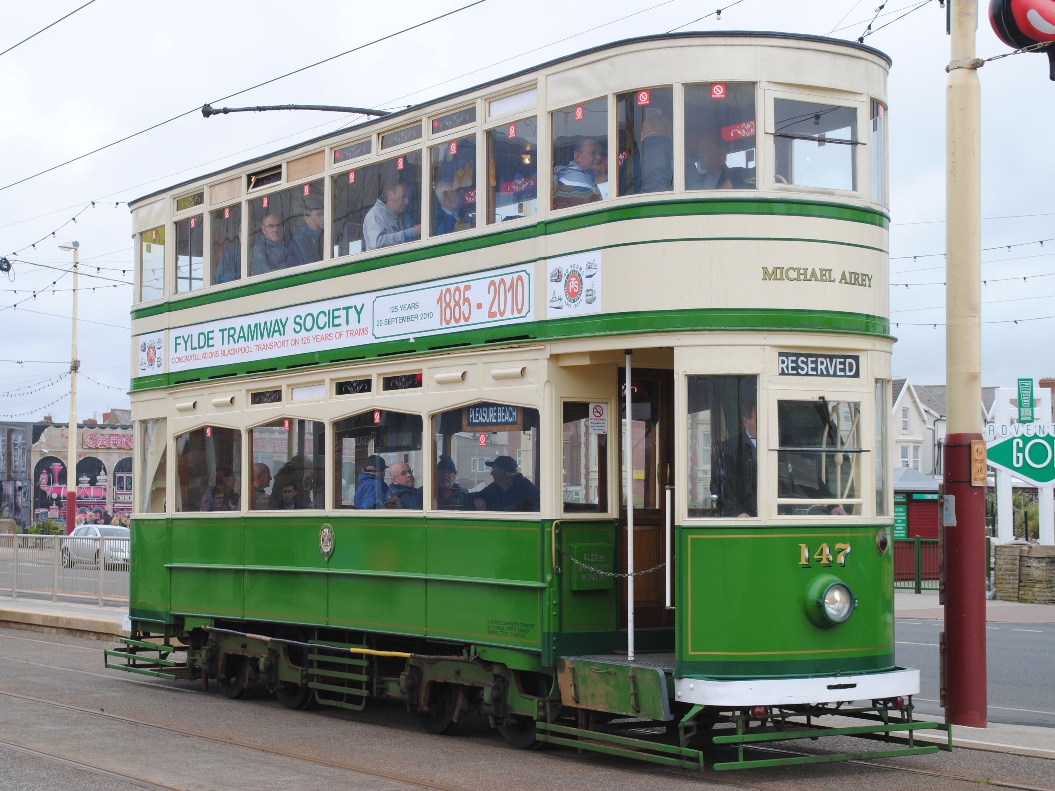 Blackpool Transport 147 (Michael Airey)